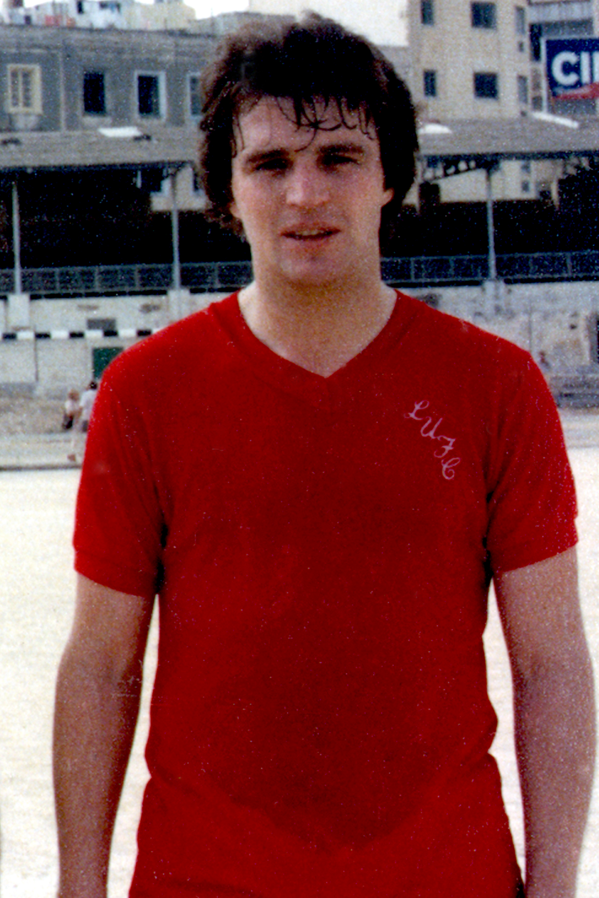 Ray Hankin, former Leeds United centre forward.